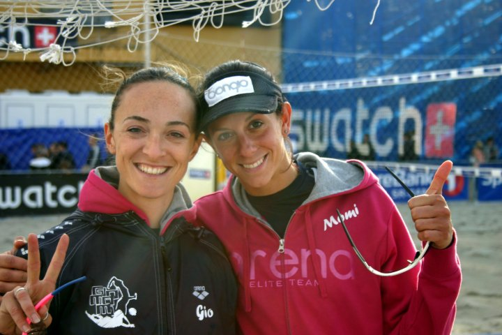 Giulia Momoli and Daniela Gioria after a match in Stavanger